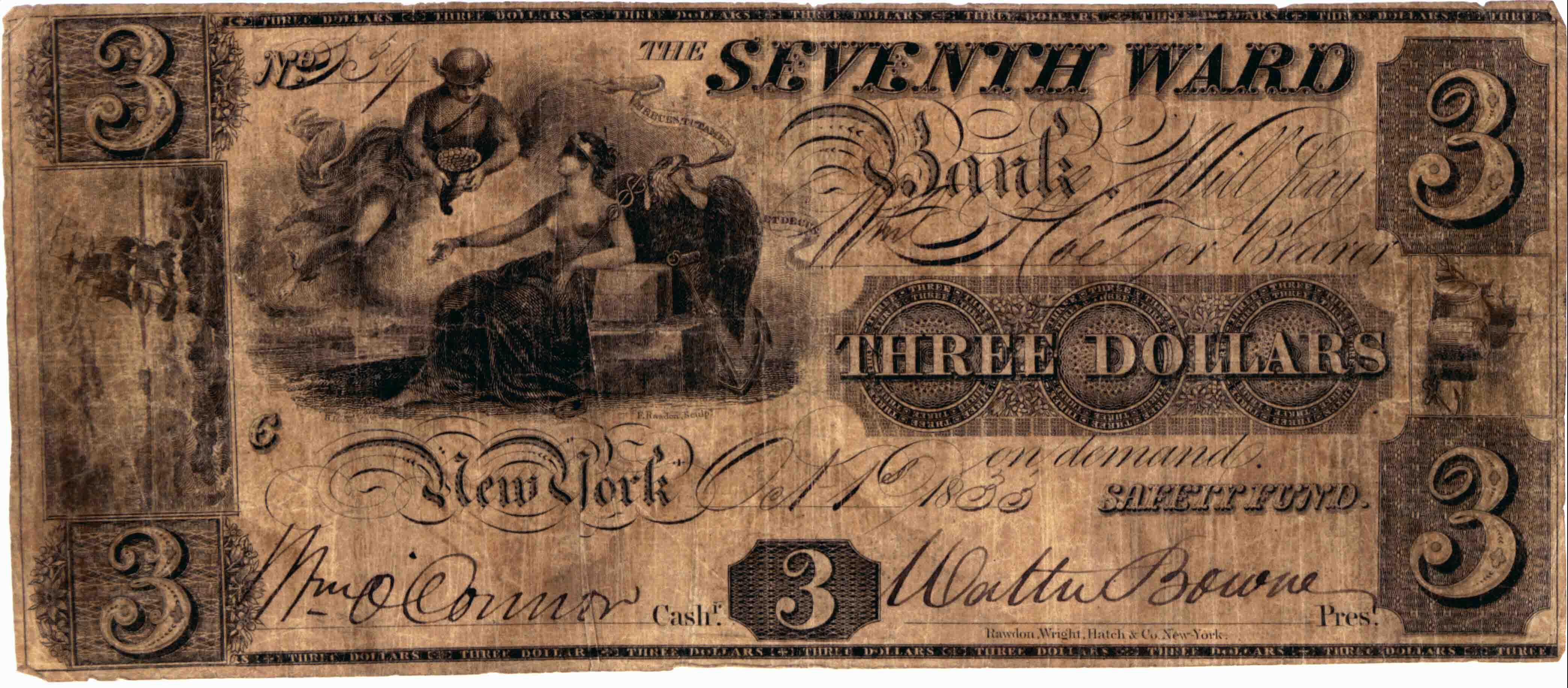 The front side of a $3 bill issued by the 7th Ward Bank of New York when Walter Bowne was president of the bank.